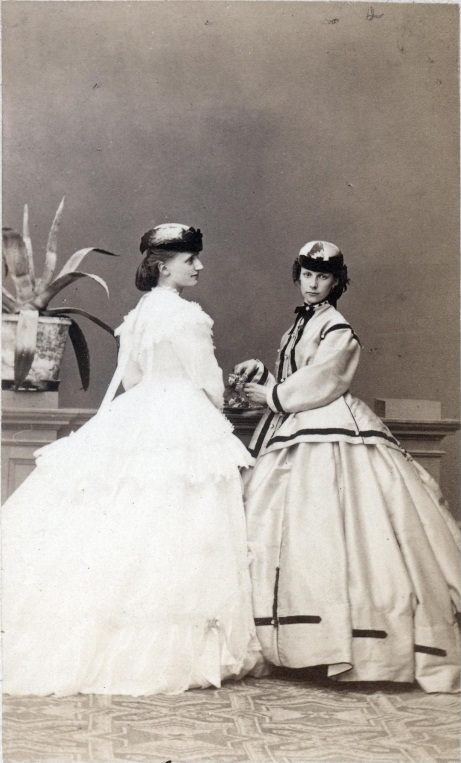 Princess Sophie of Saxony, Duchess in Bavaria with her lady in waiting Marogna, Angela Gräfin (1841 - 1909)